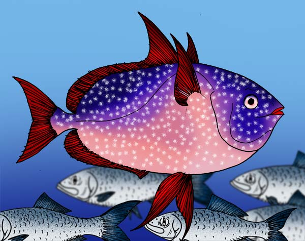 Reconstruction of the early opah Lampris zatima, of the Late Miocene of Southern California